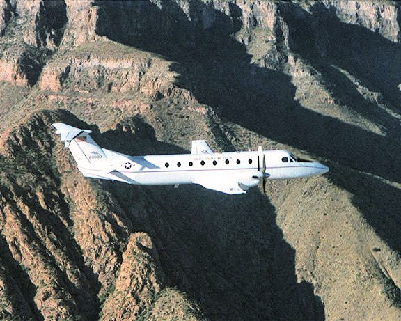 586 FLTS's C-12J. The C-12J is a deployable test asset for off-station customer requirements as well as for flight test sorties at White Sands Missile Range (WSMR).